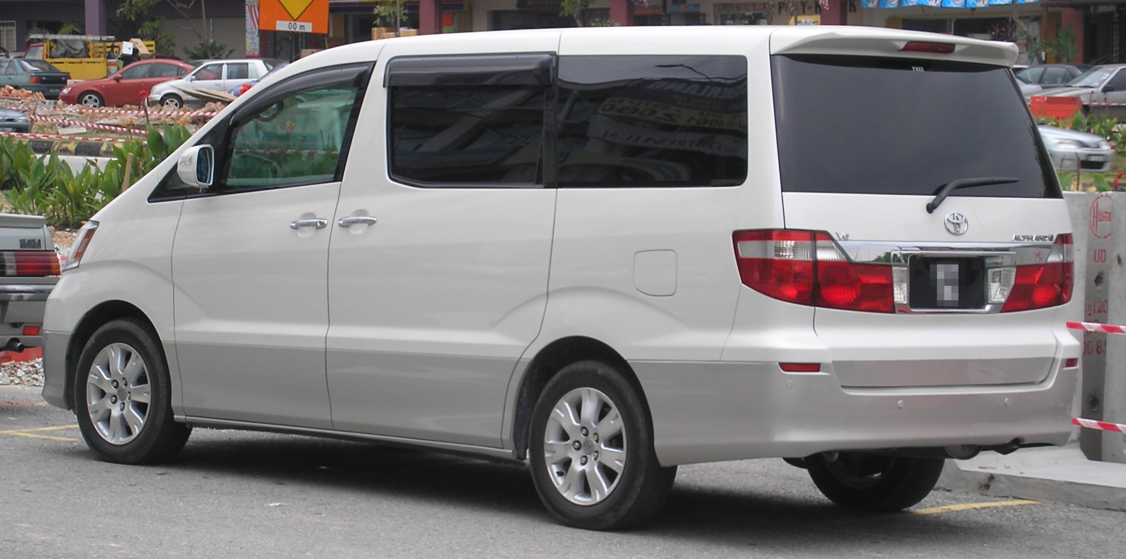 Rear-side shot of a first generation Toyota Alphard, in Serdang, Selangor, Malaysia.